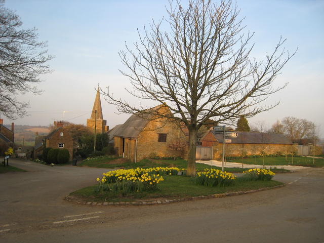 Shotteswell, Warwickshire, with daffodils in the foreground and the steeple of St Laurence's parish church in the background